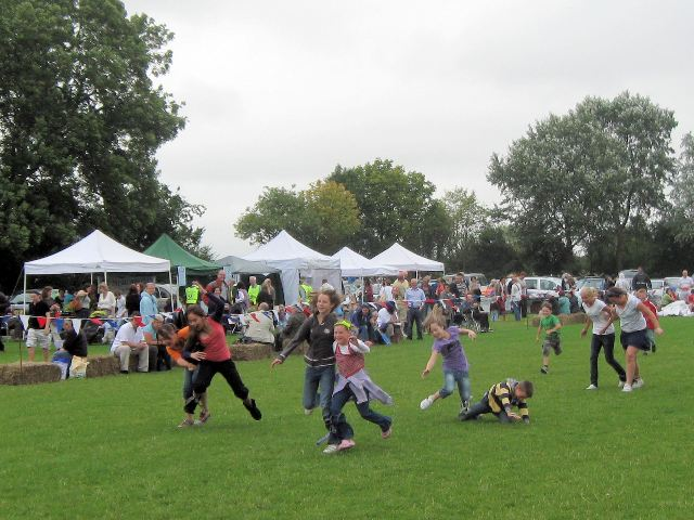 Three-legged Race at the Long Marston Village Show, 2009 This annual event is held in the field behind the village hall, at the same time as the Long Marston and Puttenham Horticultural Show.